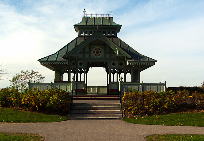 Located in the northwest corner of Parliament Hill in Ottawa, a Carpenter Gothic structure called the Summer Gazebo, a 1995 reconstruction of an earlier gazebo built for the Speaker of the House of Commons and demolished in 1956.